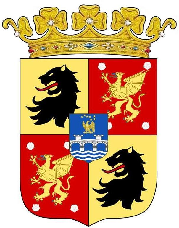 Belgian coat of arms of Prince Carl Bernadotte with Belgian coronet used for princes of the nobility